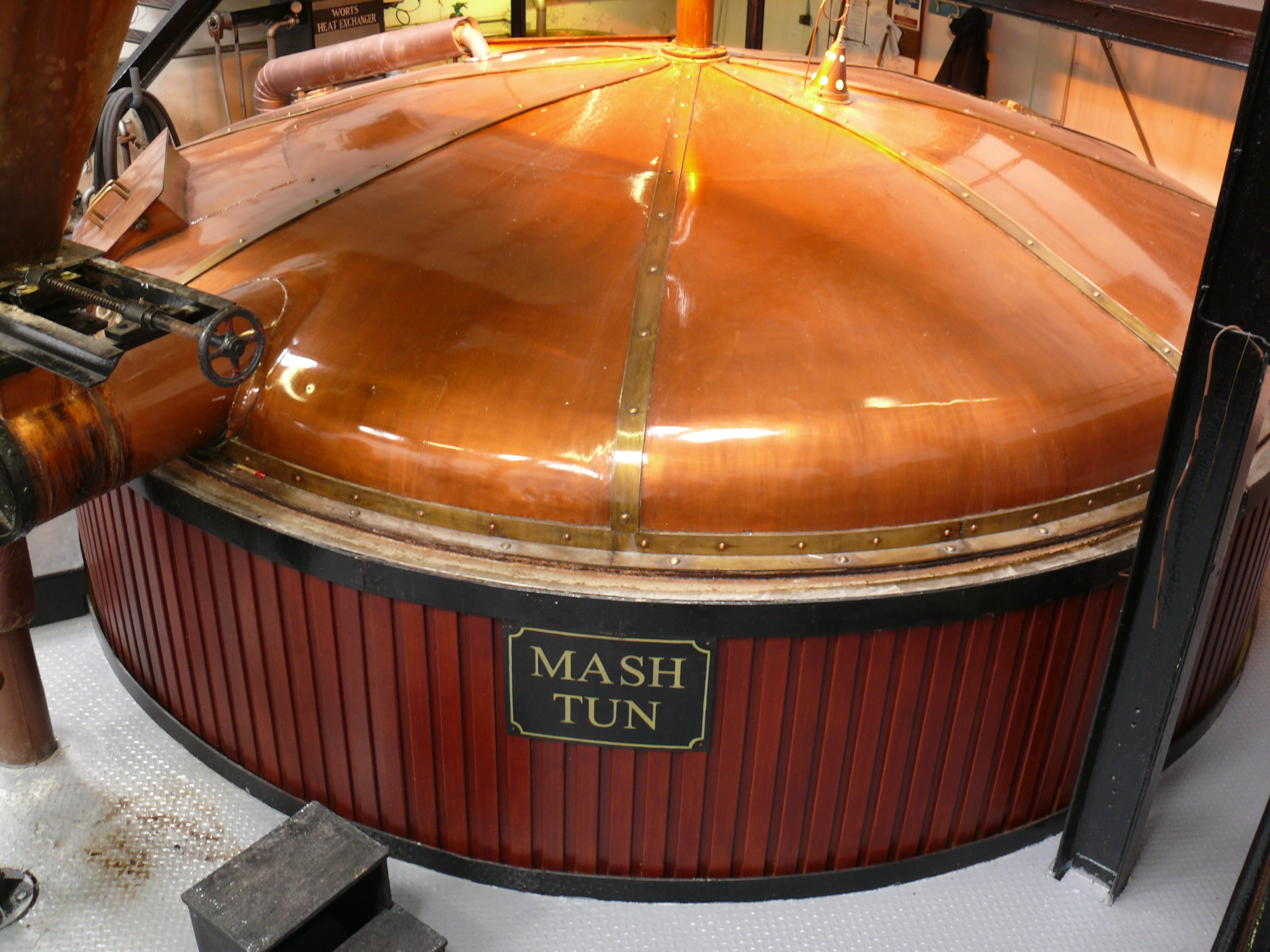 Bowmore distillery mash tun